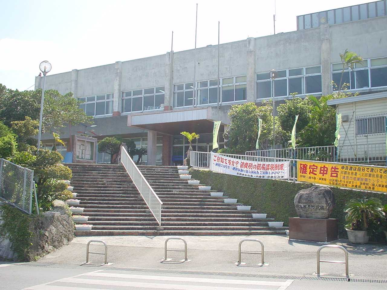 The town office of Yonabaru-chou in Okinawa, Japan.